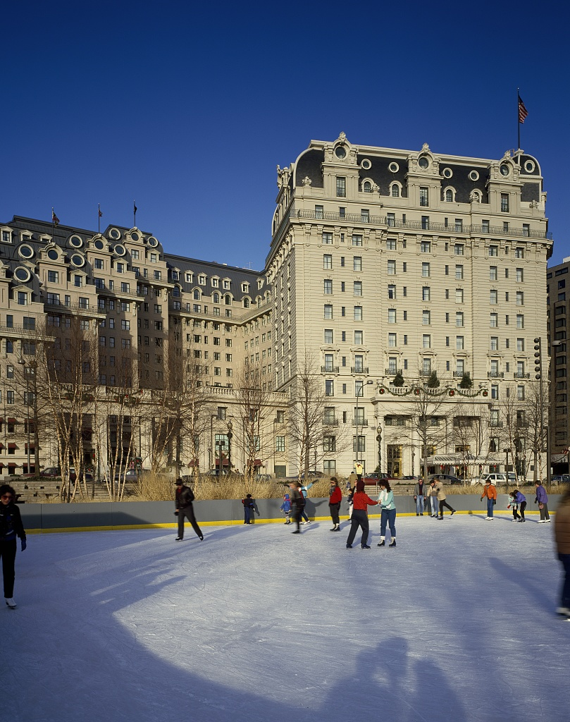 View of the Willard Hotel from Pershing Park's skating rink, Washington, D.C.